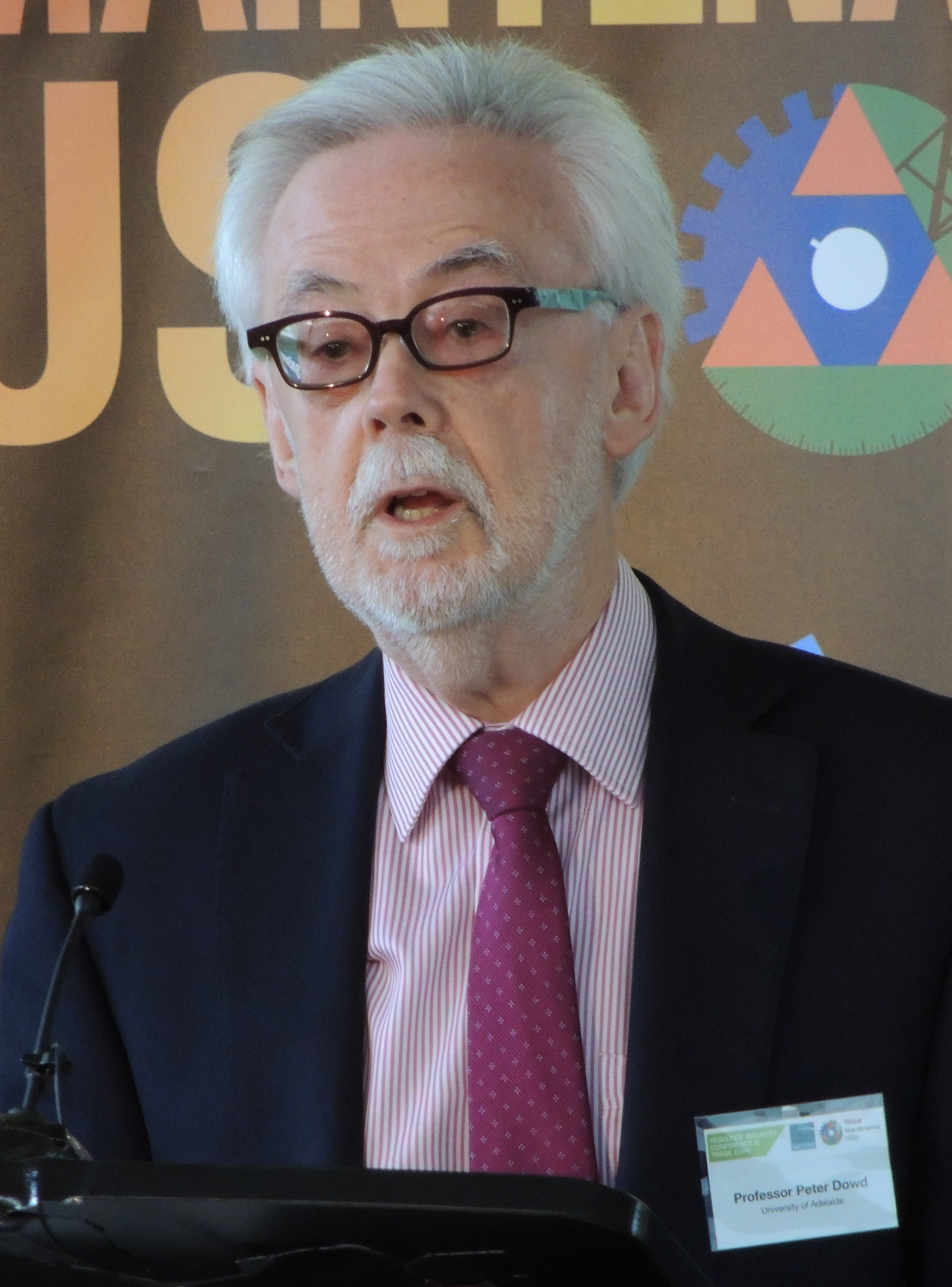 Professor Peter Dowd speaking at Global Maintenance Upper Spencer Gulf conference, Port Augusta (2015)